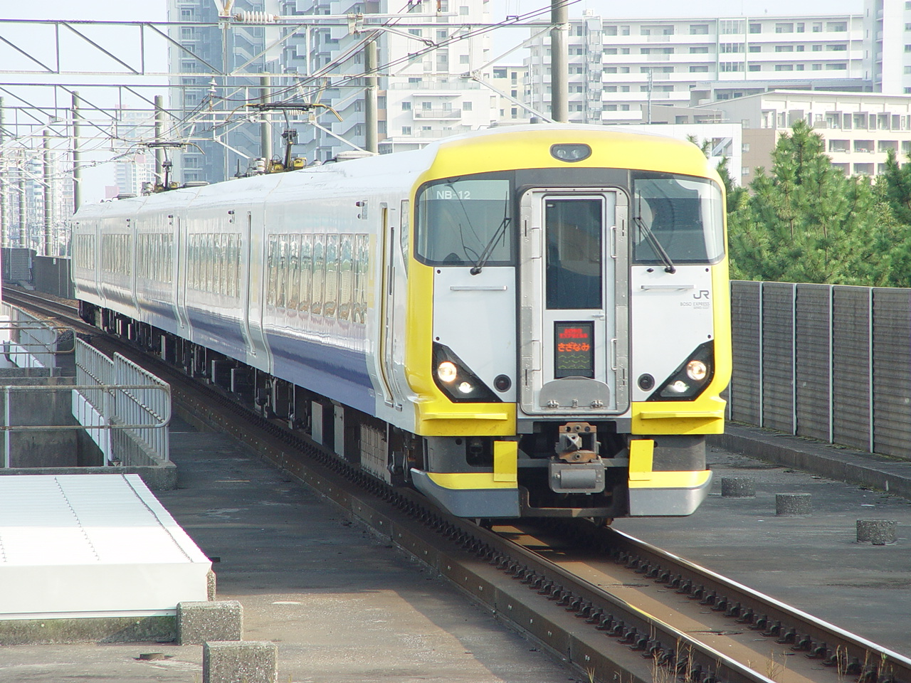 JR East E257-500 series EMU set NB12 approaching Kaihin-Makuhari Station on a Sazanami limited express service